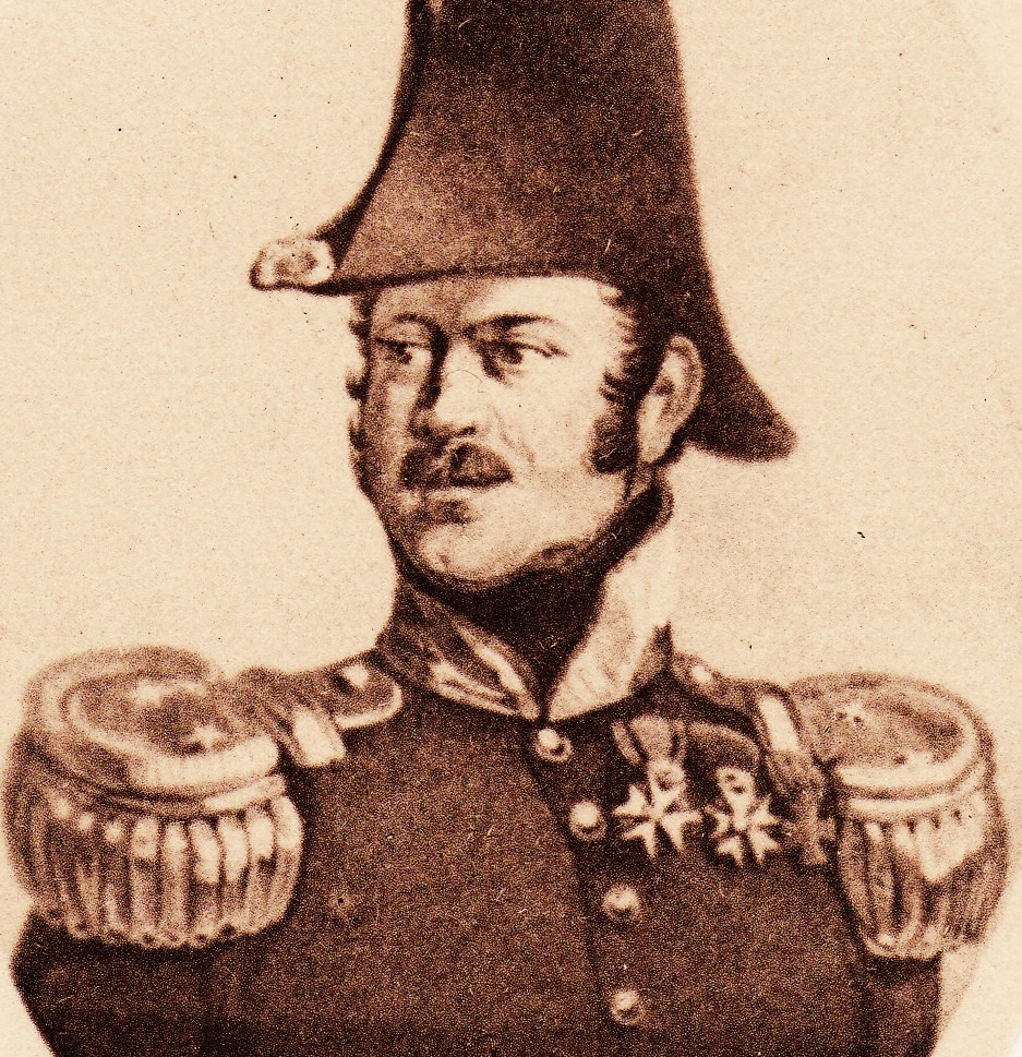 Luitenant generaal F. Knotzer